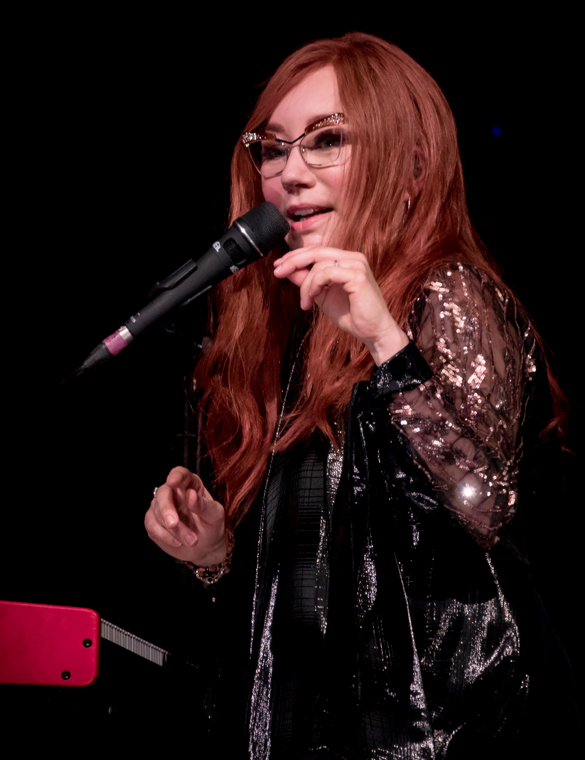 Tori Amos performing live at the Theatre at Ace Hotel in downtown Los Angeles, California, on Friday, December 1, 2017. This was the first of three sold out nights at this venue for Tori.